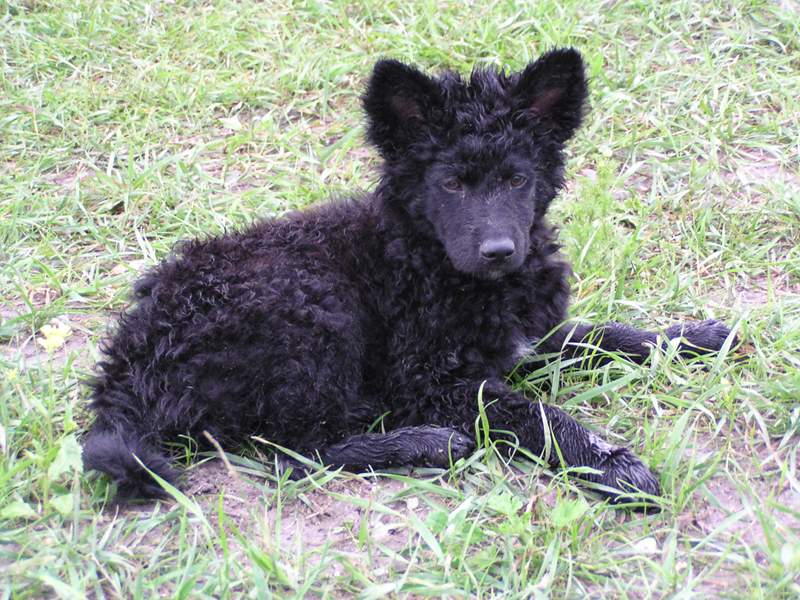 Croatian Sheepdog Mawlch Gera - 3 month old